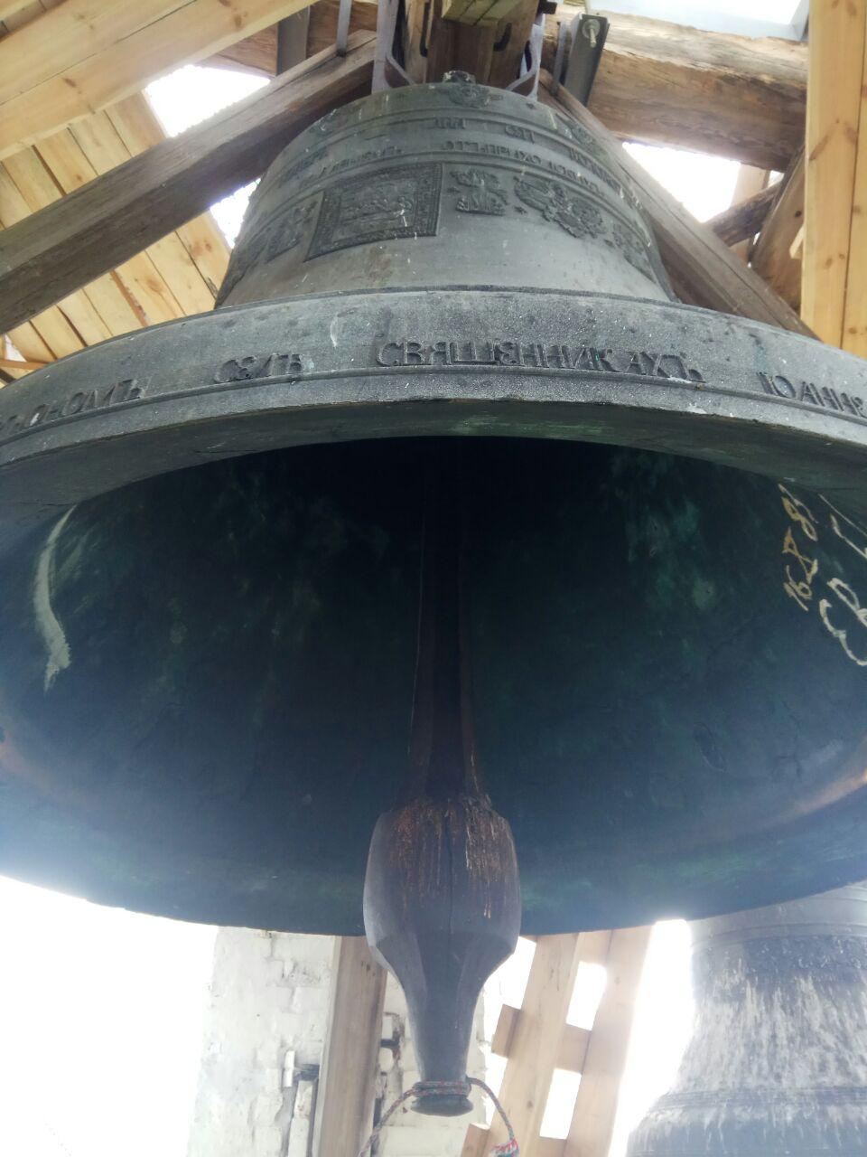 Колокол Воскресенского храма